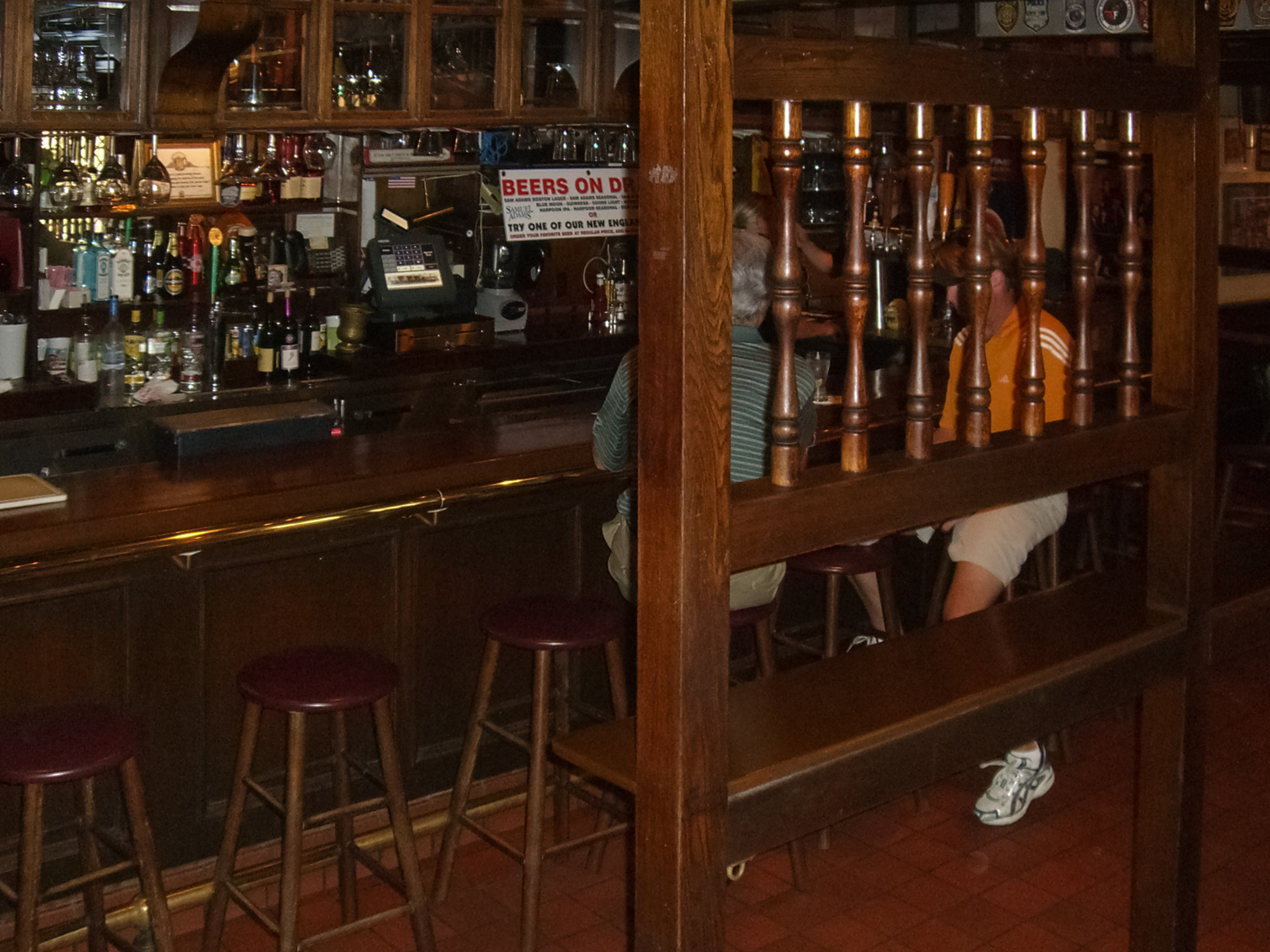 Interior view of Cheers Beacon Hill in Boston, Massachusetts, USA